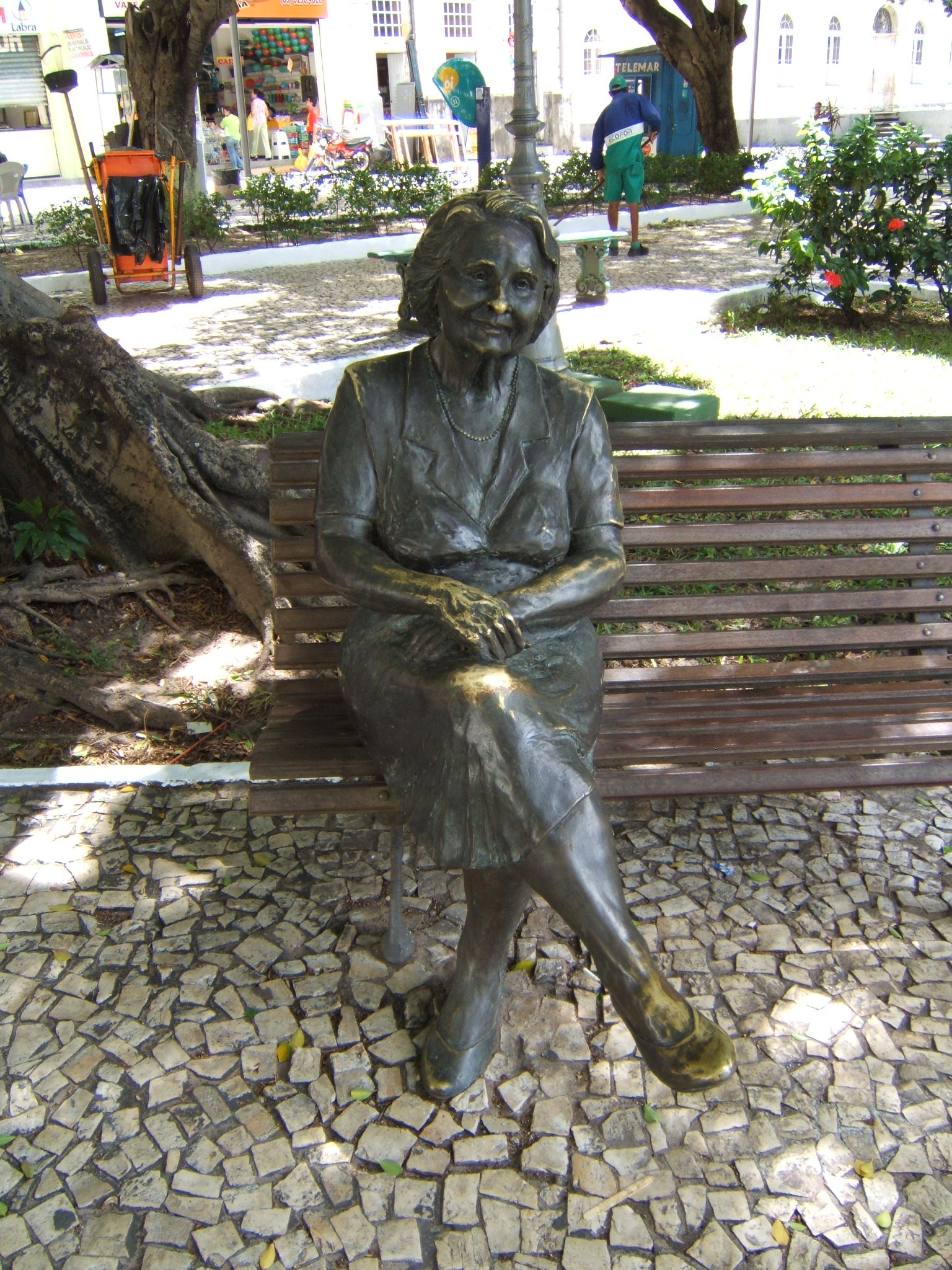 Rachel de Queiroz's statue at Praça dos Leões